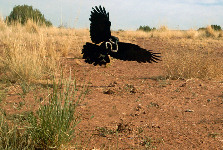 Chihuahuan Raven (Corvus cryptoleucus) catching snake, Sevilleta, United States.